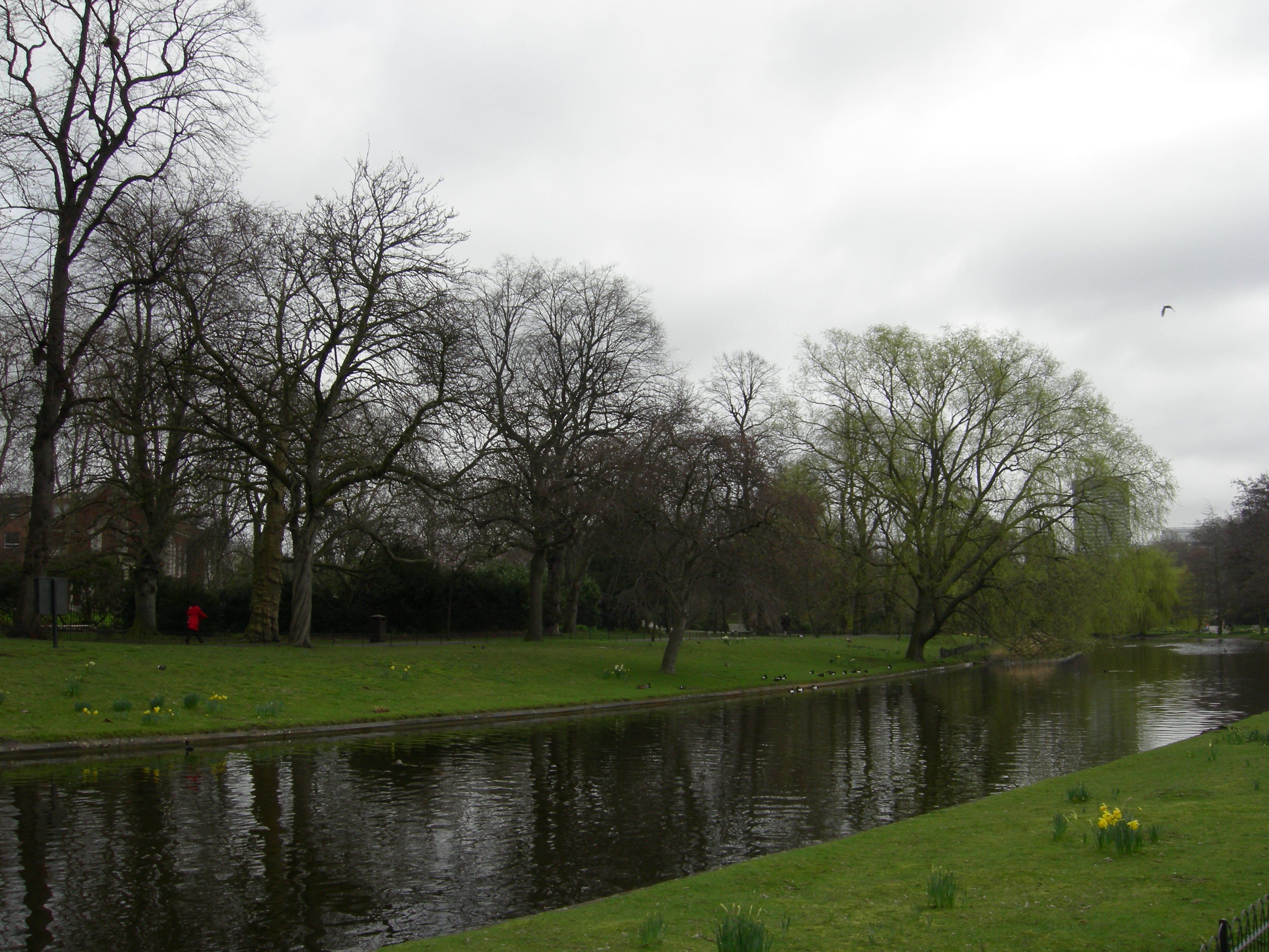 Detail of Regent's Park